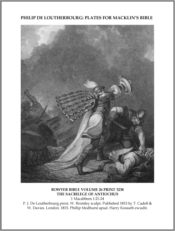 An engraved plate in the Macklin Bible (Cadell & Davies edition of the Apocrypha) after a specially-commissioned painting by Philippe De Loutherbourg. Photographed from the Bowyer bible, Bolton, England. 26.3238. The Sacrilege of Antiochus. During a battle Antiochus carries a large stolen menorah and an embroidered altar cloth over his shoulder to right (1 Macabbees 1:21-24). 1815. Inscriptions: Lettered below image with title, text reference, production detail: "P. J. De Loutherbourg Pinxt.", "W. Bromley Sculpt." and publication line: "London, Published June 1st. 1815, by T. Cadell & W. Davies Strand". Print made by William Bromley. Dimensions: Height: 480 millimetres; width: 380 millimetres.